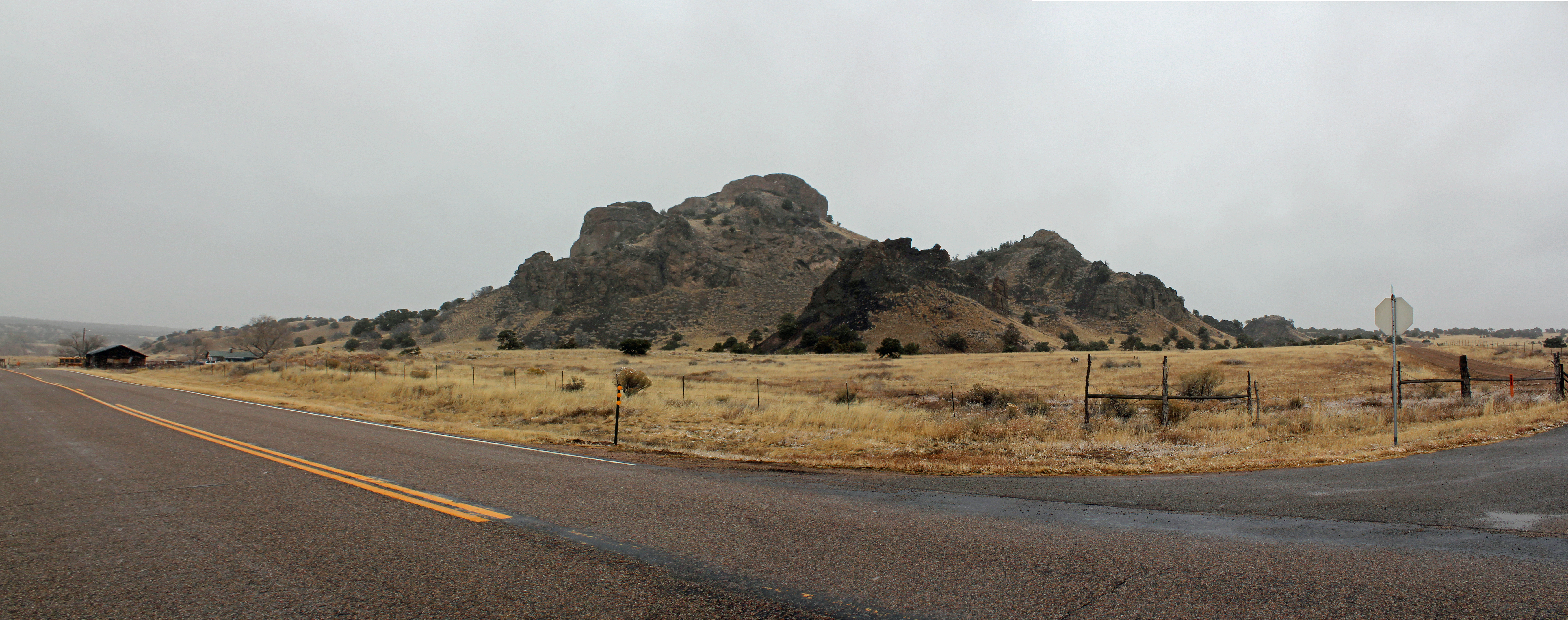 The Gardner Butte, an igneous plug located near the town of Gardner, in Huerfano County, Colorado. The paved road in the picture is Colorado State Highway 69.